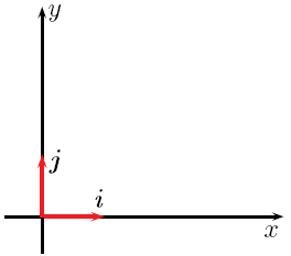 The two dimensional coordinate system and its unit vectors